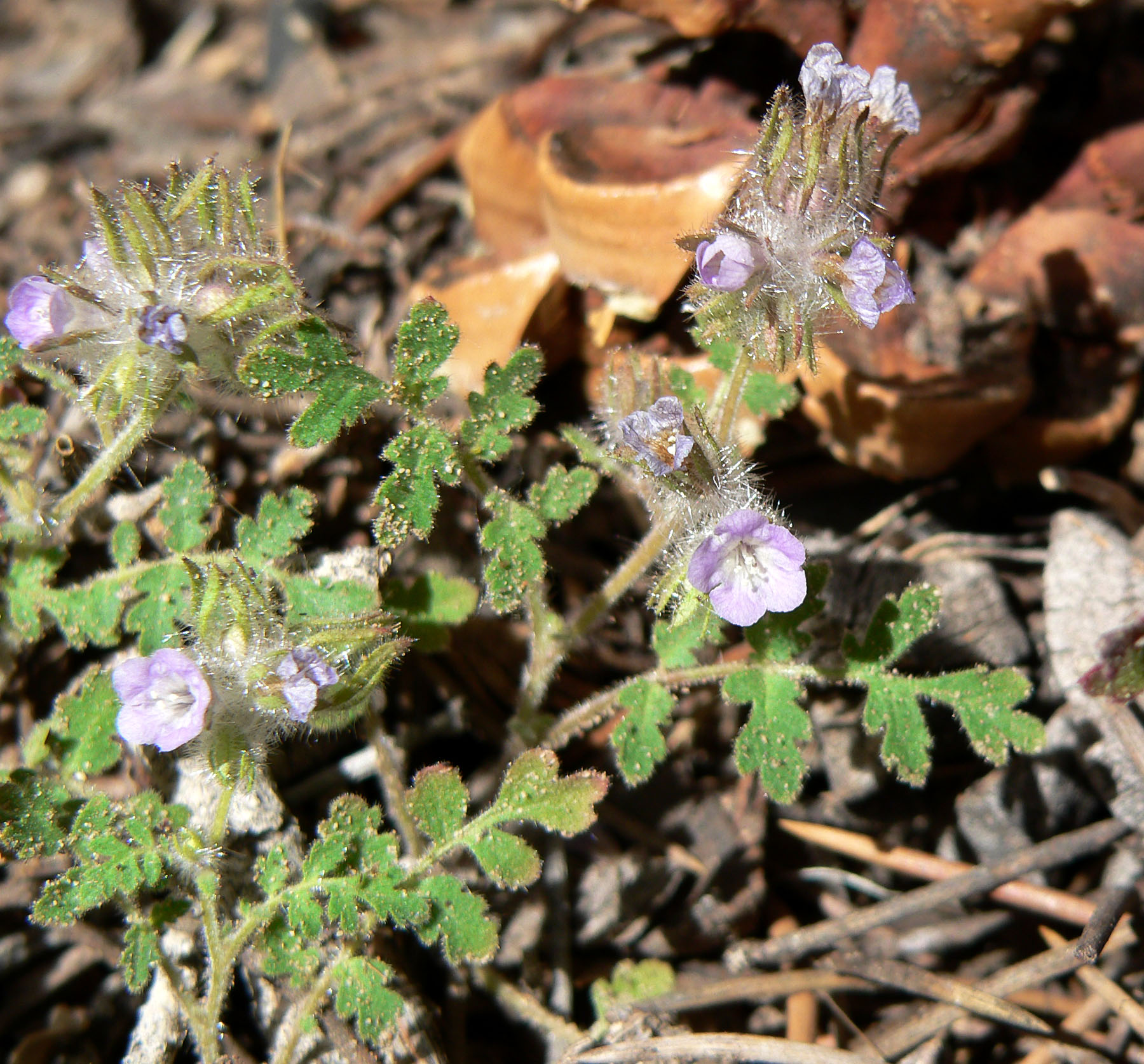 Phacelia cryptantha in the bottom of Pine Creek Canyon, east of the old homestead, Red Rock Canyon, Spring Mountains, southern Nevada (elev. about 1200 m)